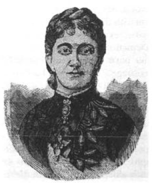 Baroness Clara de Hirsch, El amigo de la familia, unnumbered, 14 Tevet 5642 (1882)